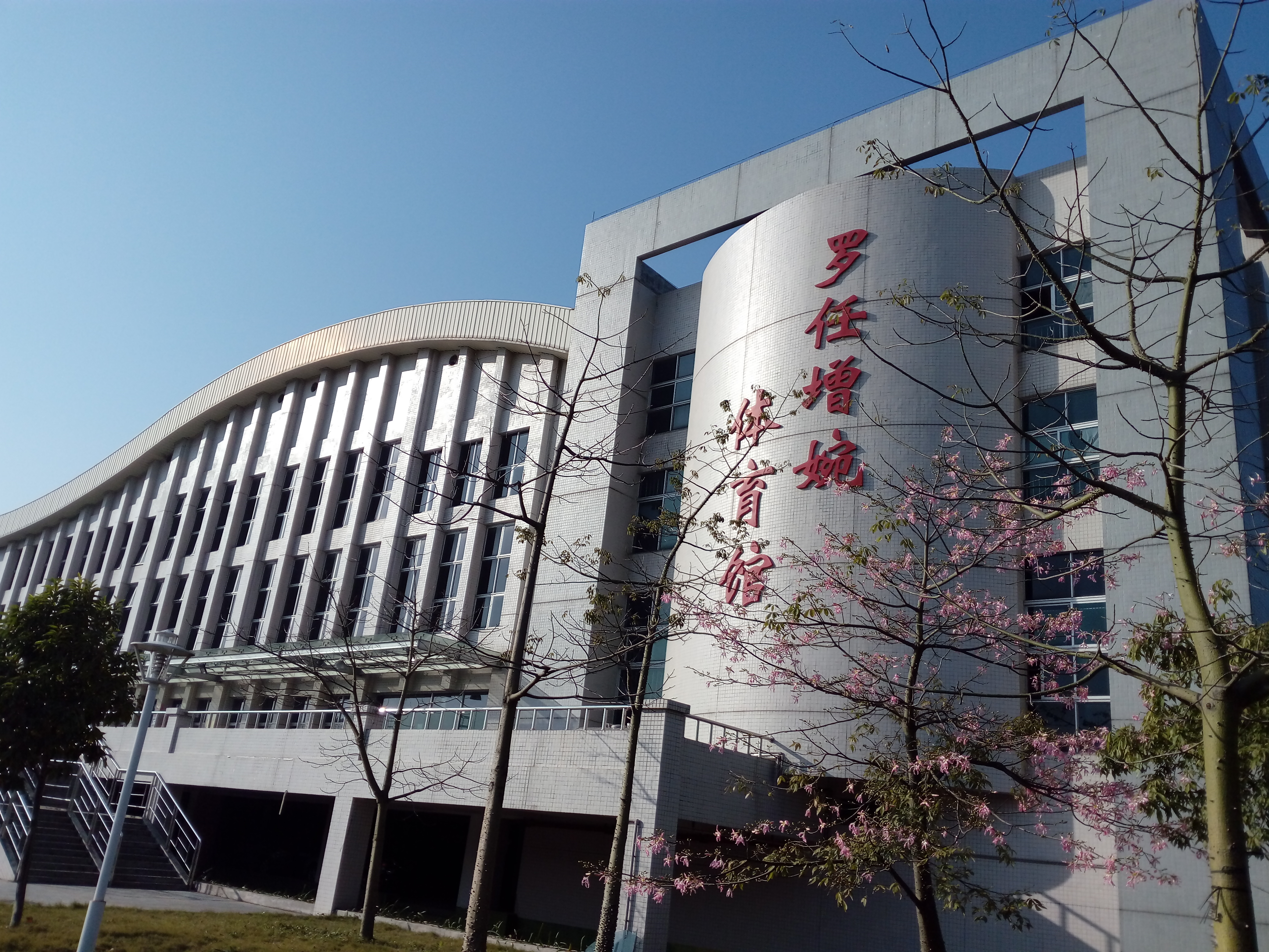 The new gymnasium near the playground was completed in Sep 28th, 2012, with tennis courts, badminton courts and 2 basketball courts.